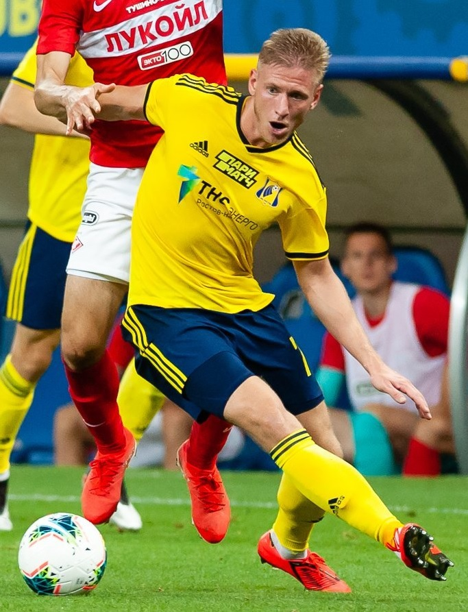 Dmitri Chistyakov with FC Rostov in a game against FC Spartak Moscow.